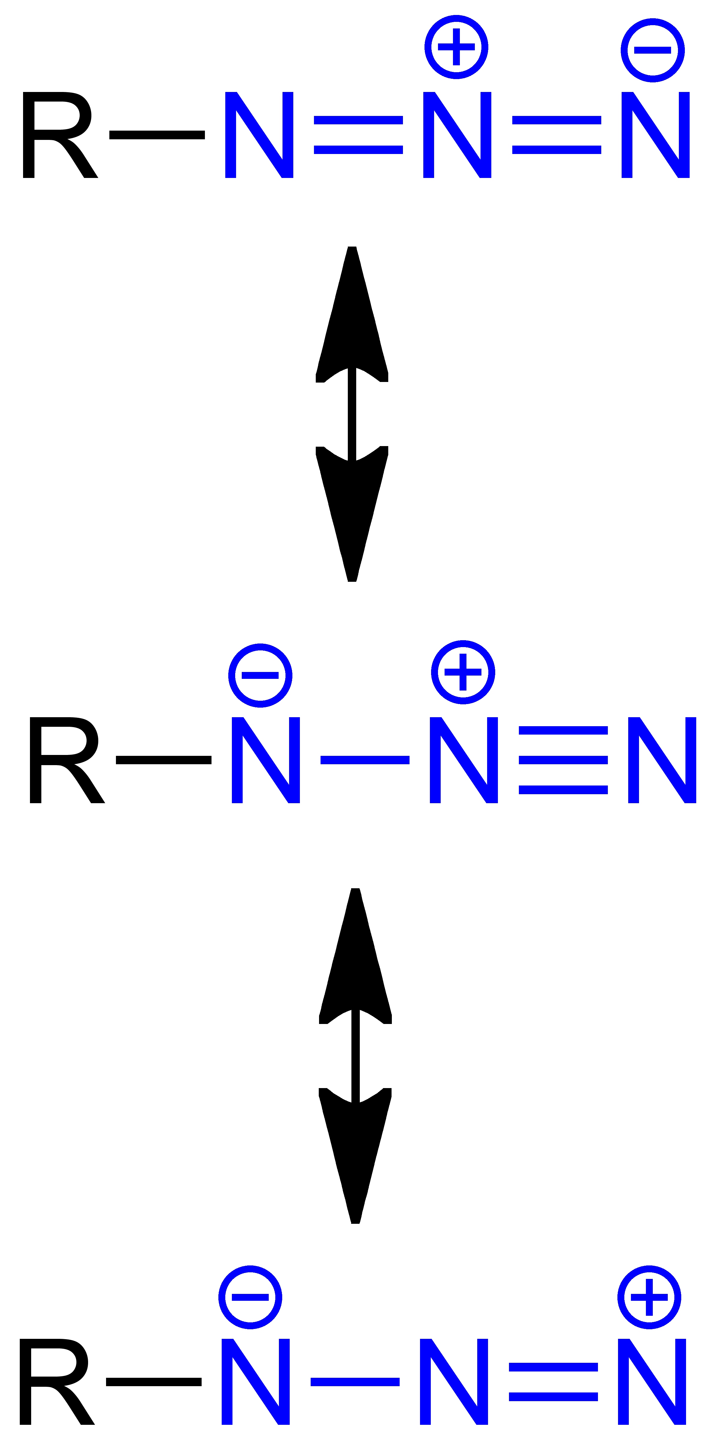 Organyl_Azide_General_Formulae